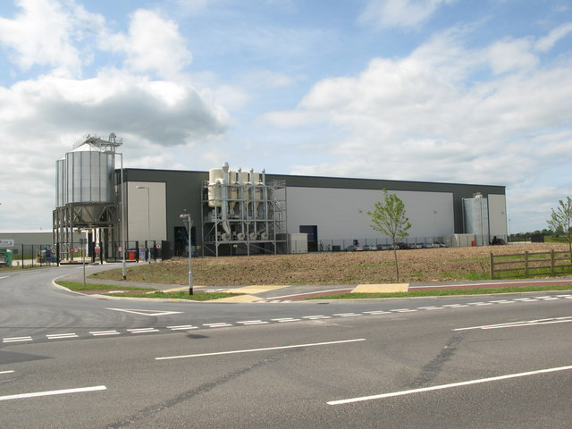 Goole: Drax Power Station Bio Fuel Production Plant, Goole, East Riding of Yorkshire, England.